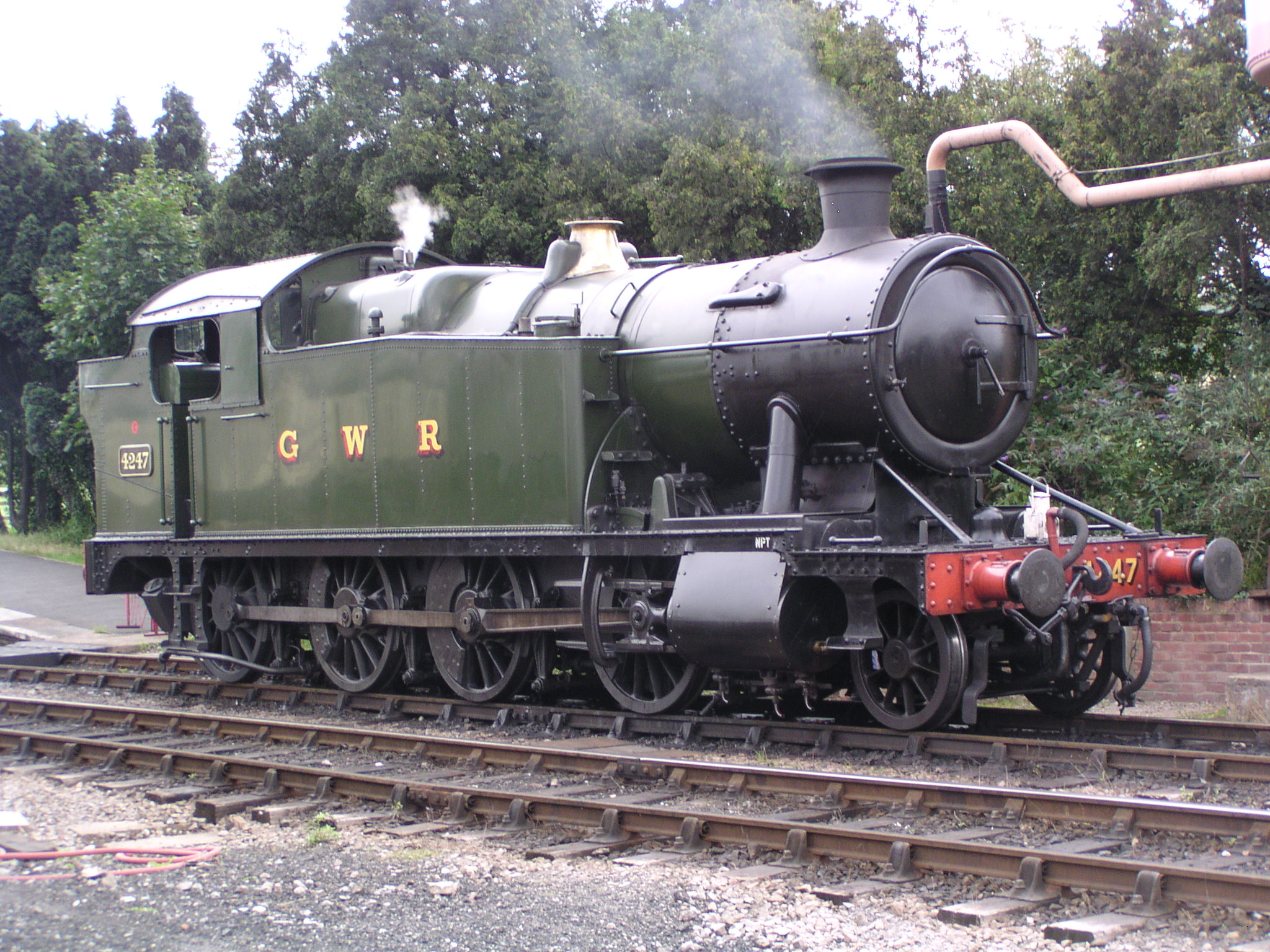 GWR 4200 Class, 2-8-0T no. 4247 at Toddington Image by Phil Scott (Our Phellap); originally at en:, same filename.